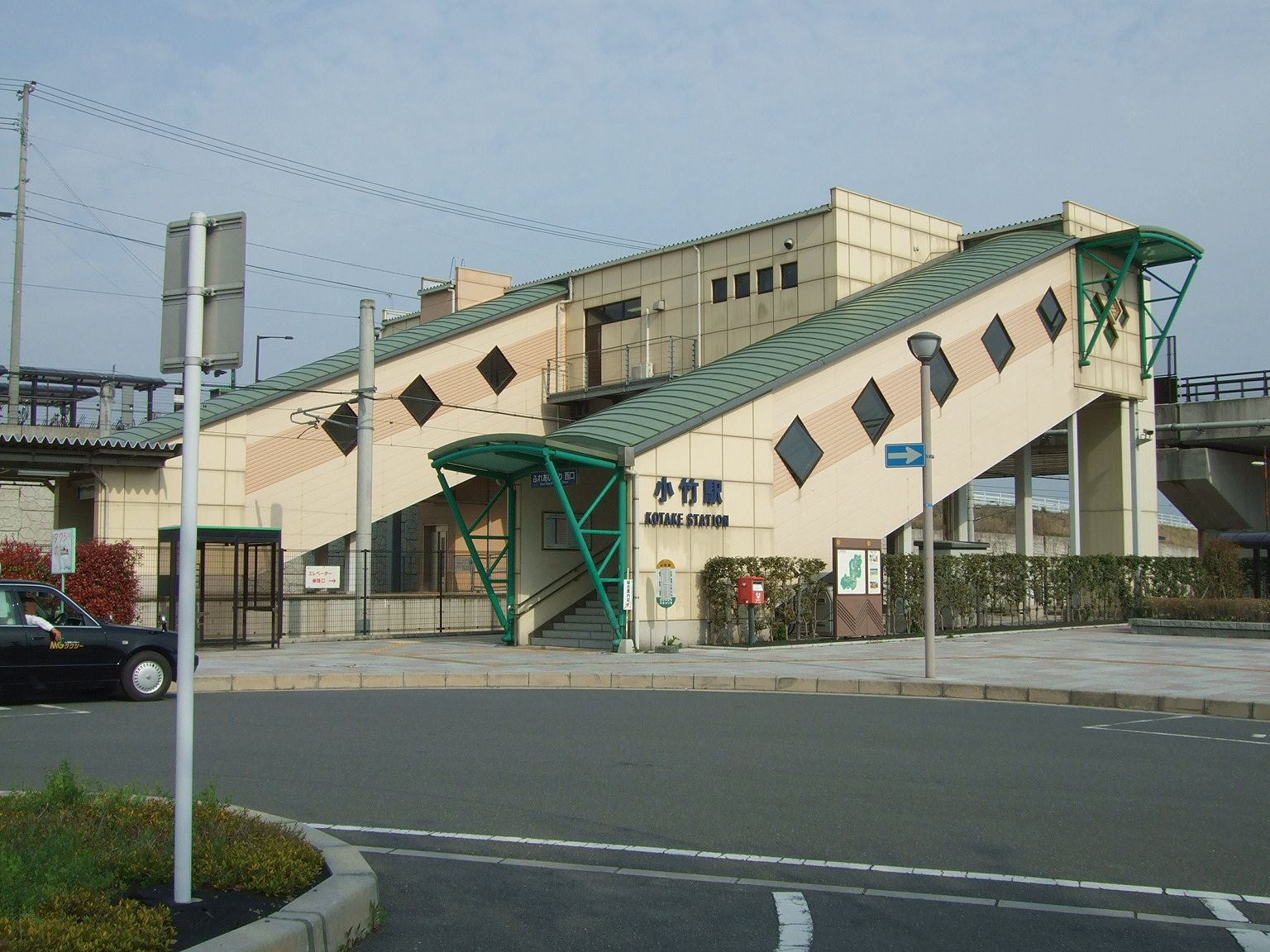 Kotake Station, Chikuho Main Line, Kyushu Railway Company.